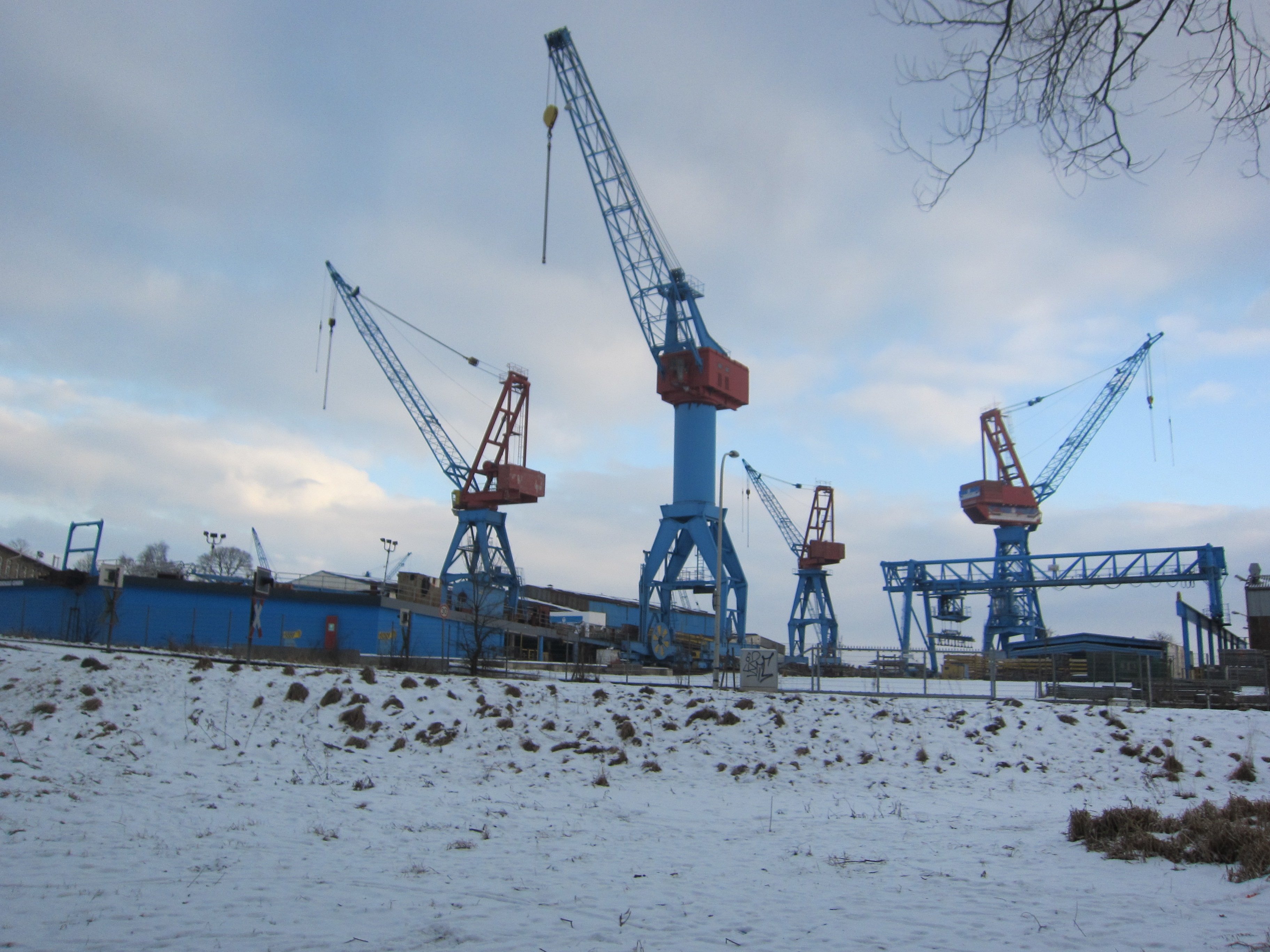 Shipyard "Lindenau GmbH, Schiffswerft & Maschinenfabrik" in Kiel-Friedrichsort